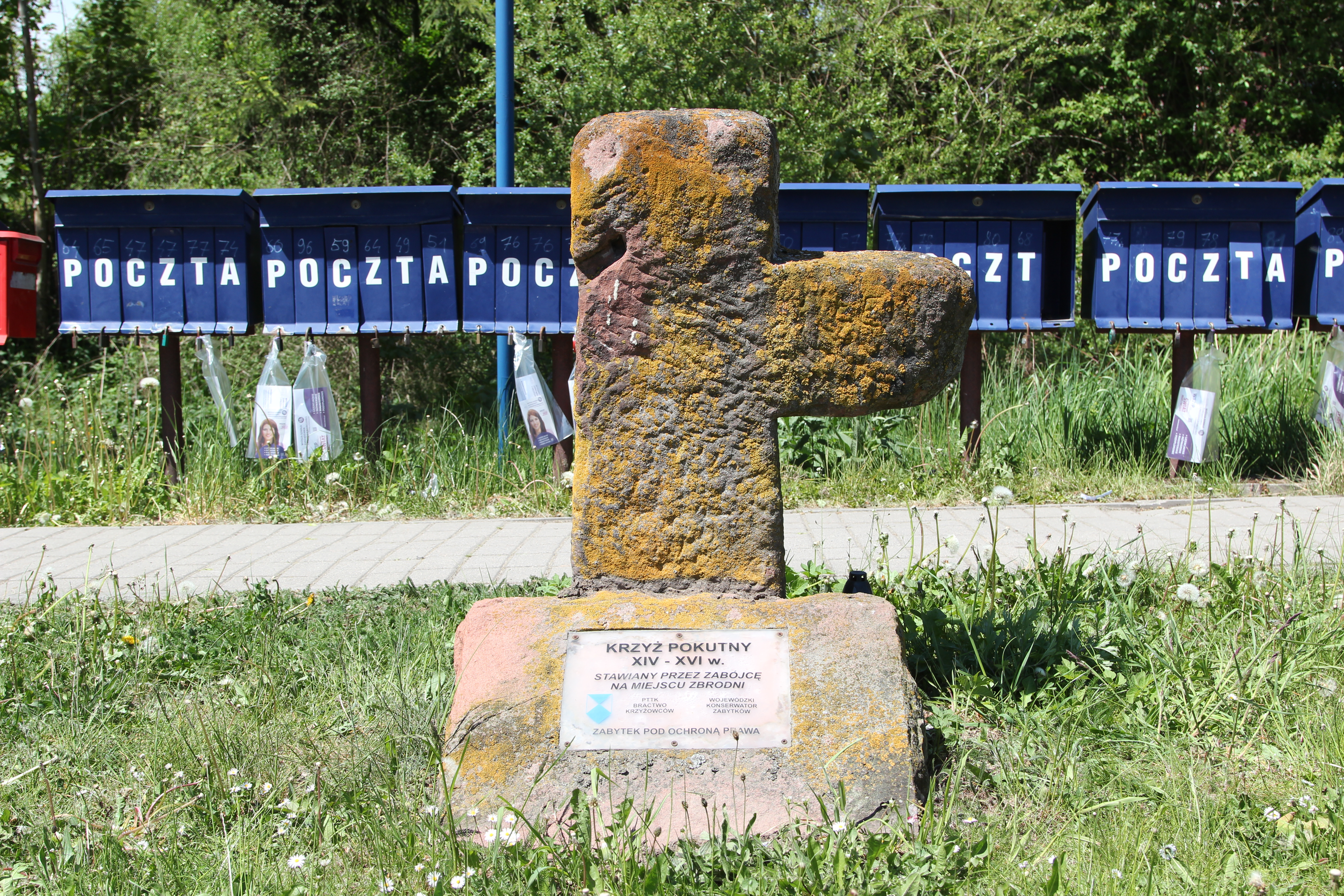 Stone cross in Dzikowiec